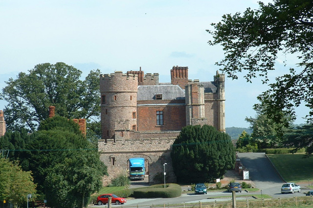 Rowton Castle. Viewed from the south